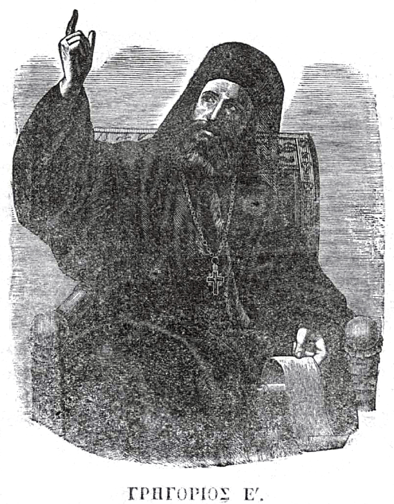 Patriarch Gregory V of Constantinople